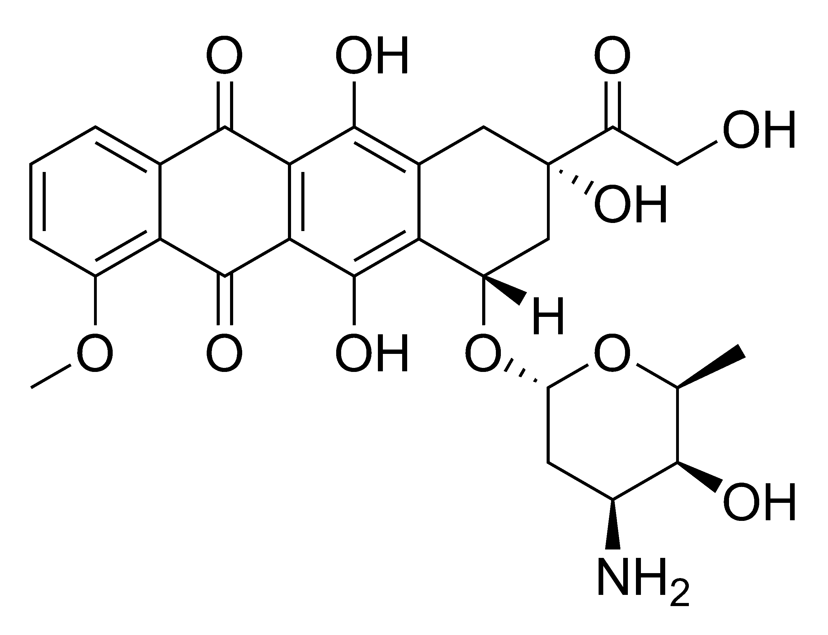 Chemical structure of doxorubicin. Structure follows IUPAC guidelines.